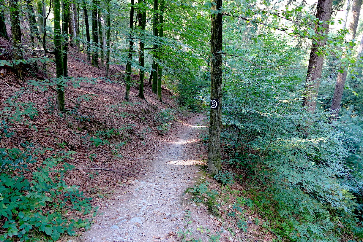 "Blade track" - the tourist marked route around the German city of Solingen (Northern Rhine-Westphalia). 4th stage: around a reservoir of Sengbachtalsperre. 9,0 km.